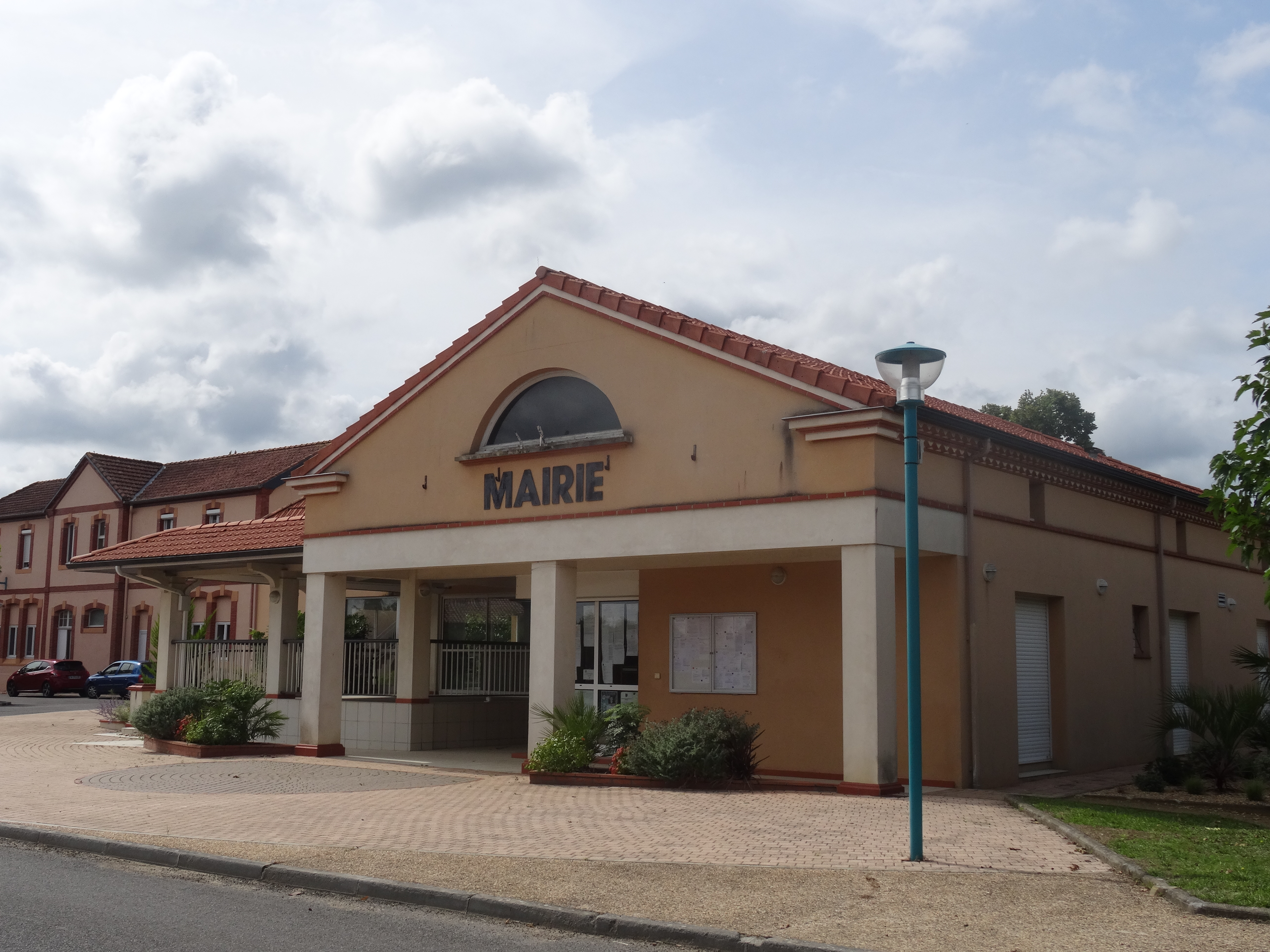 Mairie de Caupenne d'Armagnac